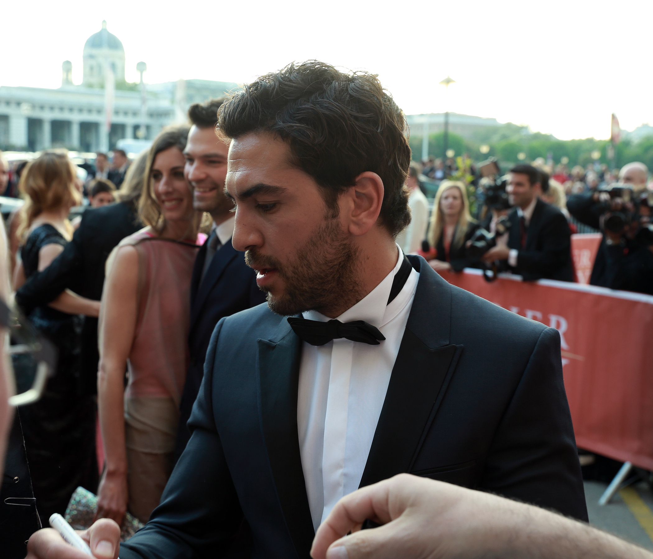 Elyas M’Barek at the Romy film awards 2014 (Hofburg Imperial Palace in Vienna)